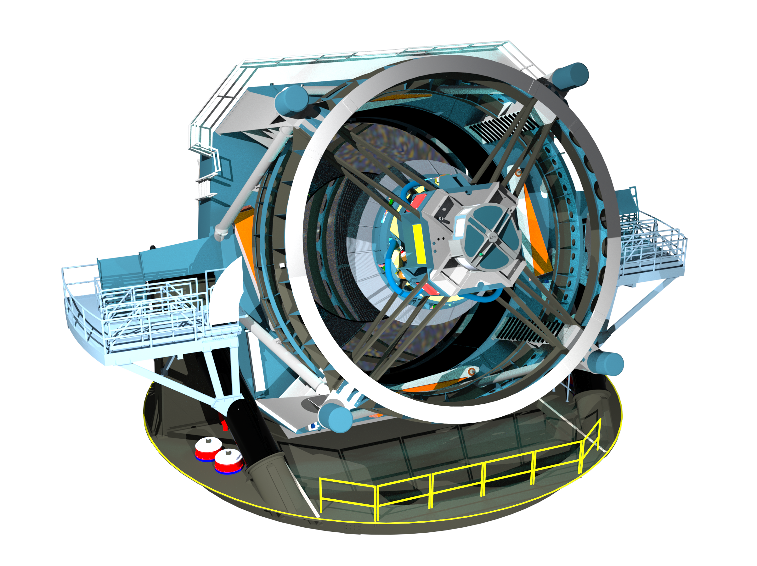 3/4 view rendering of Large Synoptic Survey Telescope